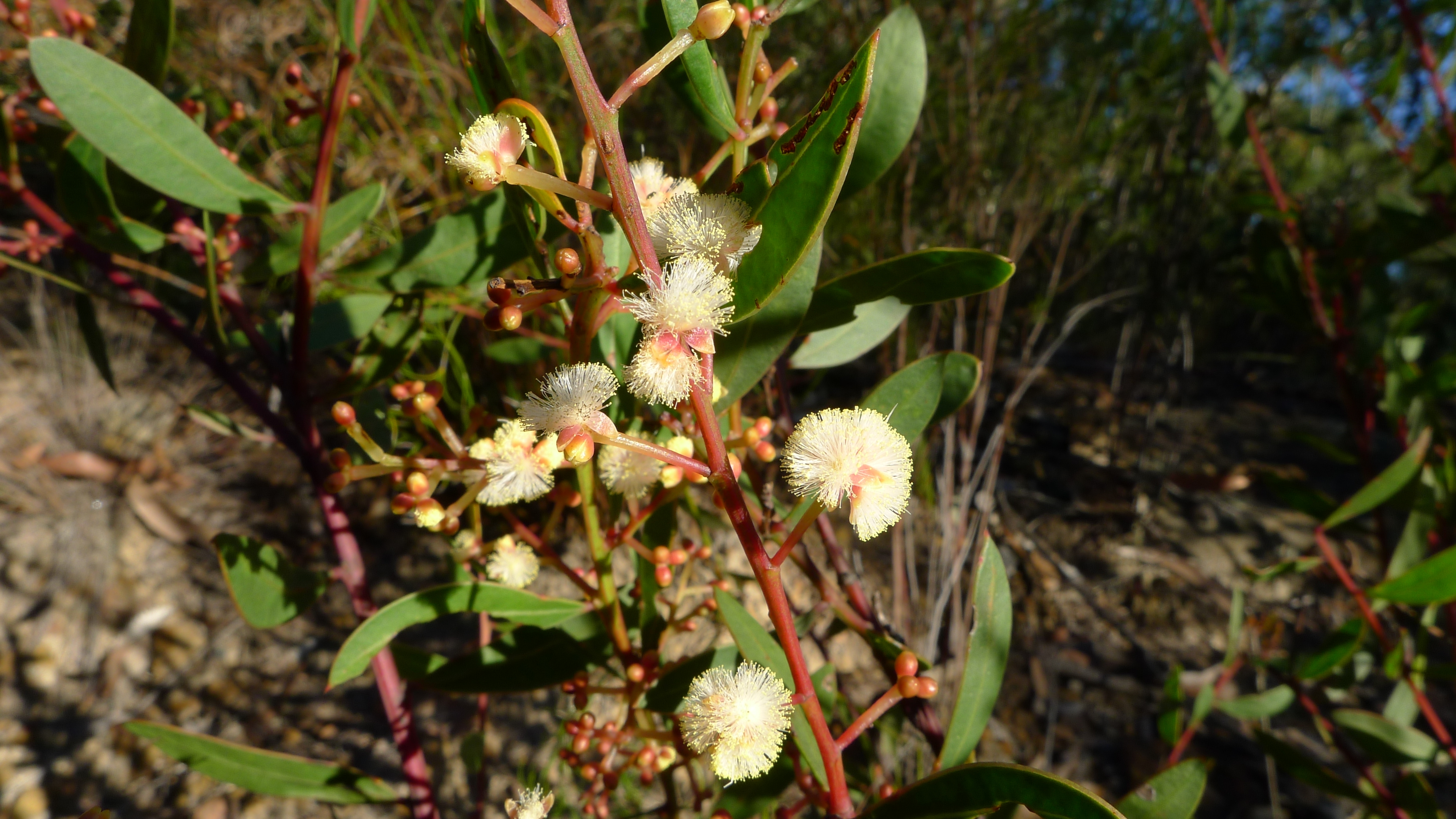 Acacia myrtifolia , Myrtle wattle, has globular flowers and red stems. Heathcote National Park, NSW Australia, July 2011.